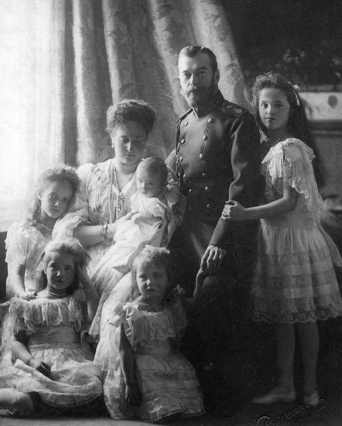 Family of Nicholas II of Russia